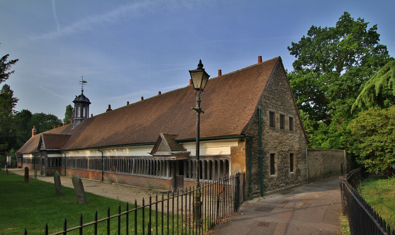 Long Alley Almshouses, West St Helen Street, Abingdon, Oxfordshire (formerly Berkshire), seen from the north